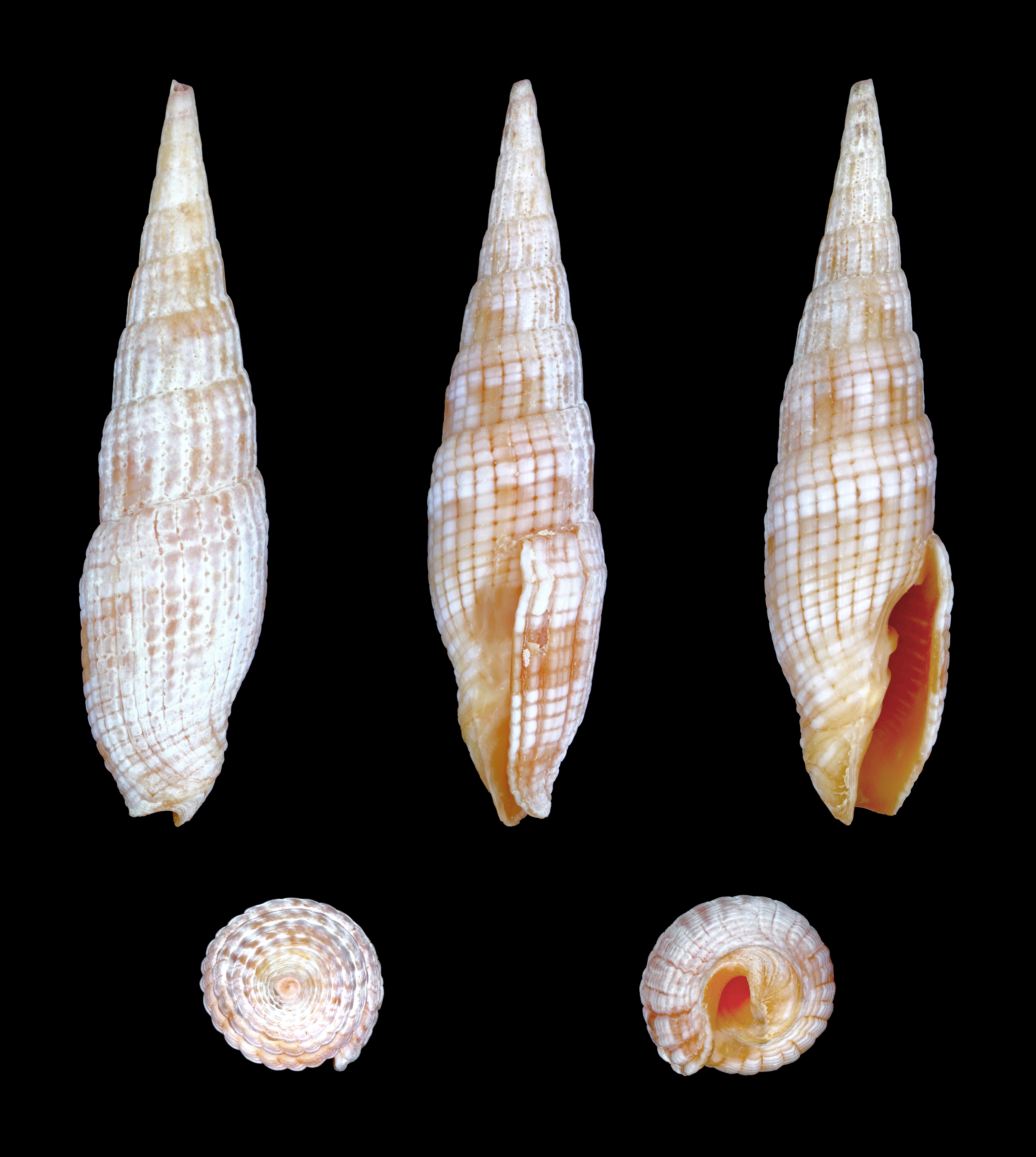 Taki's Mitre, Length 4.8 cm; Originating from Bohol, Philippines; Shell of own collection, therefore not geocoded. Dorsal, lateral (right side), ventral, back, and front view.